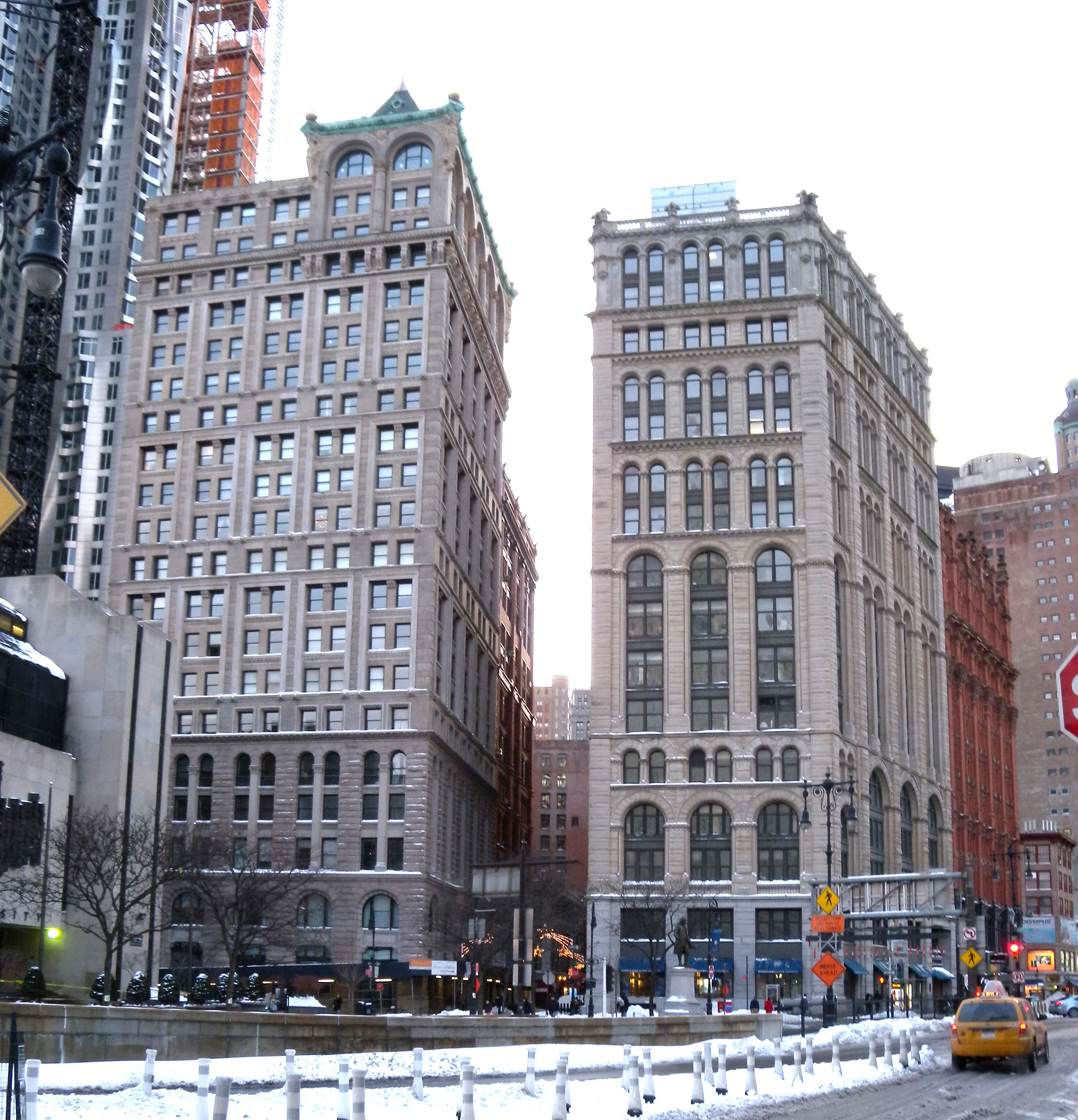 Looking south across Park Row at American Tract Society Building, now apartments, on left (see also File:ATCbuilding.JPG) at dusk of a sunny day. NYCLPC designation 1998. Former New York Times building on right.